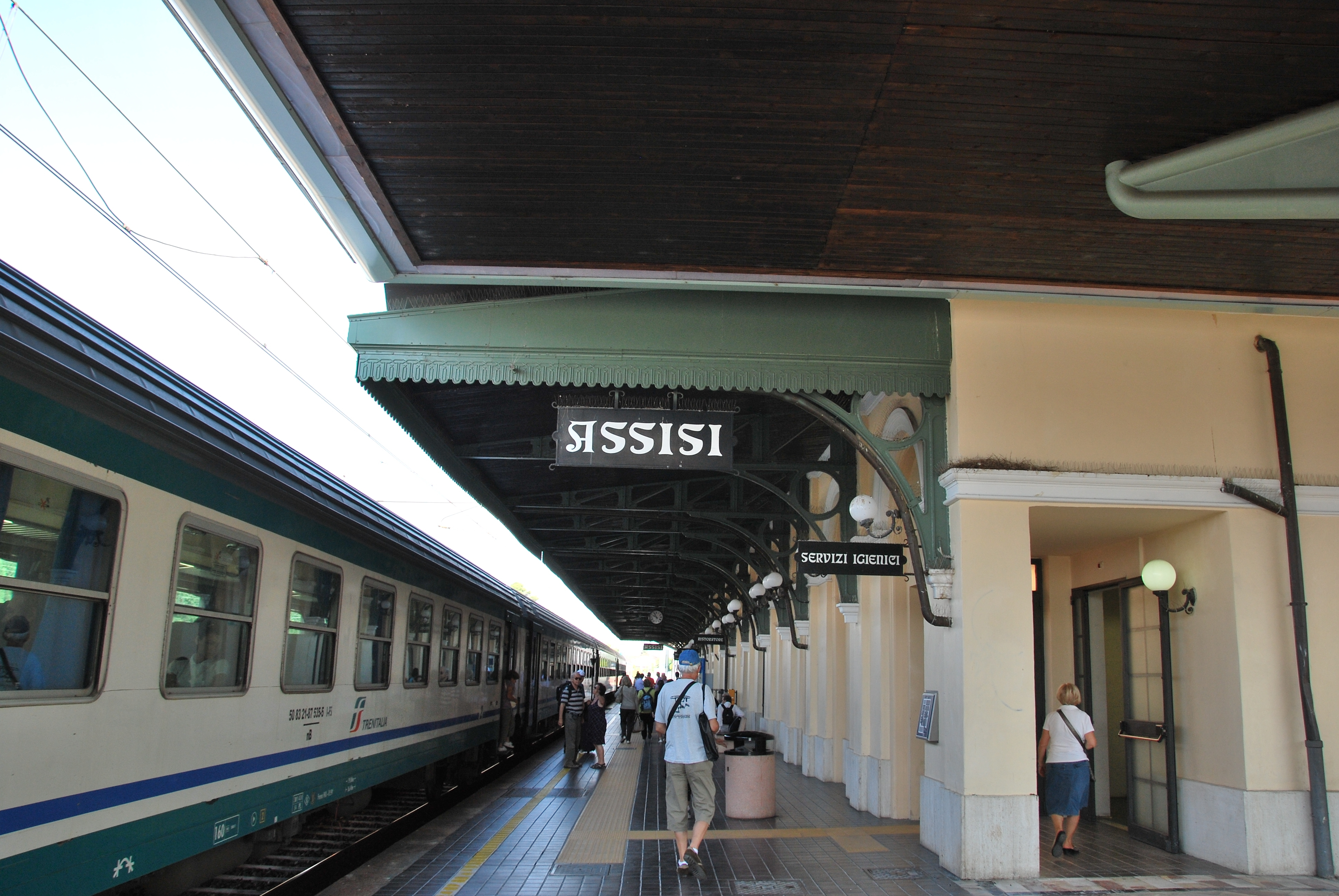 Assisi railway station 2011